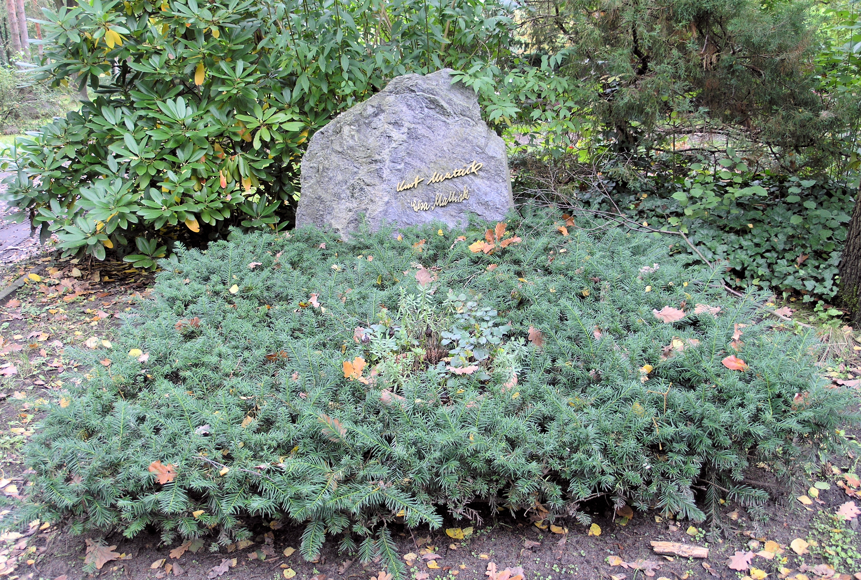 "Ehrengrab" (grave of honor), Kurt Mattick, Potsdamer Chaussee 75, Berlin-Nikolassee, Germany Koordinate:52°25′23″N 13°12′38″E / 52.42306°N 13.21056°E